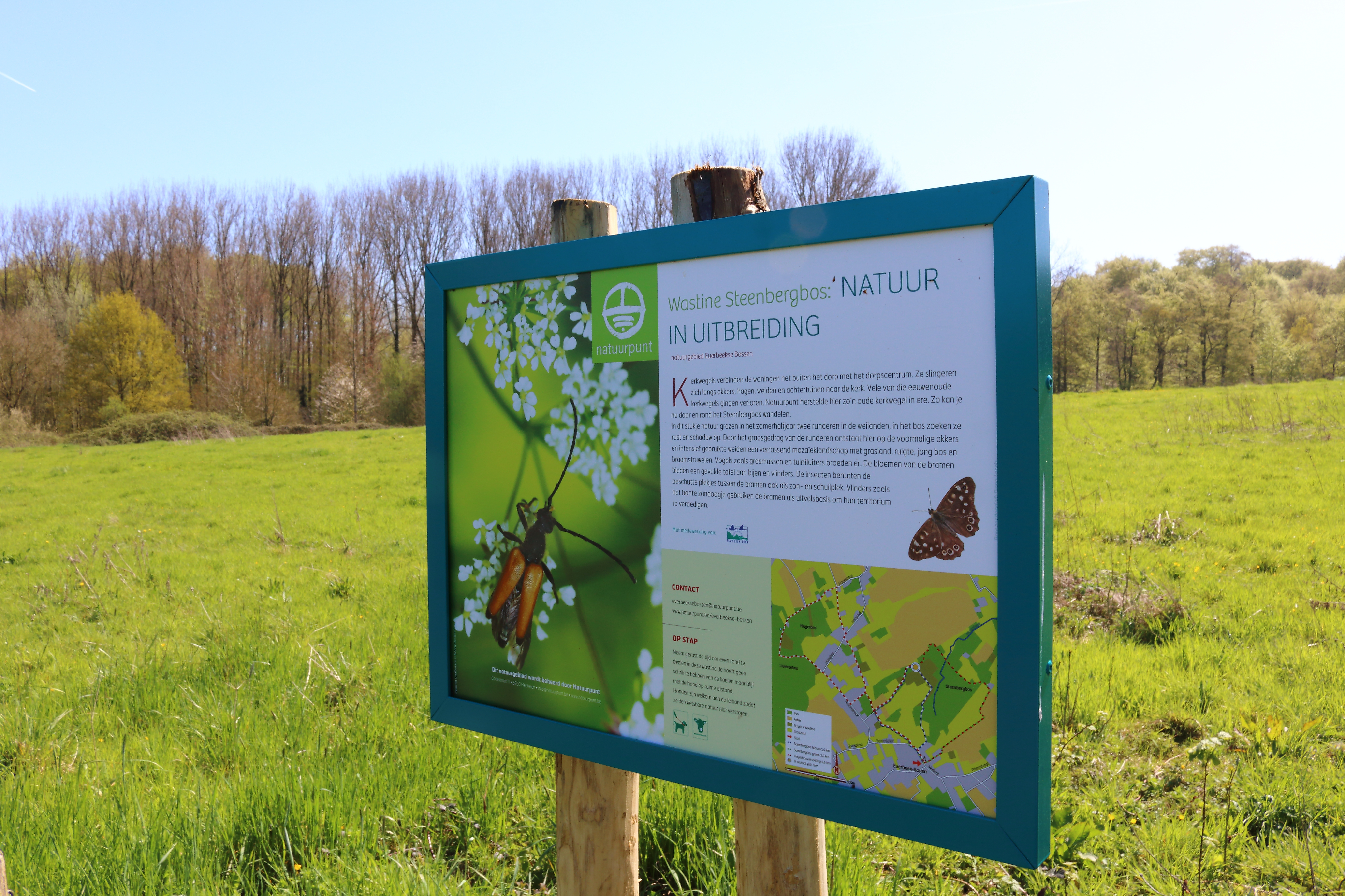 Everbeekse bossen nature reserve, Brakel, Flanders, Belgium